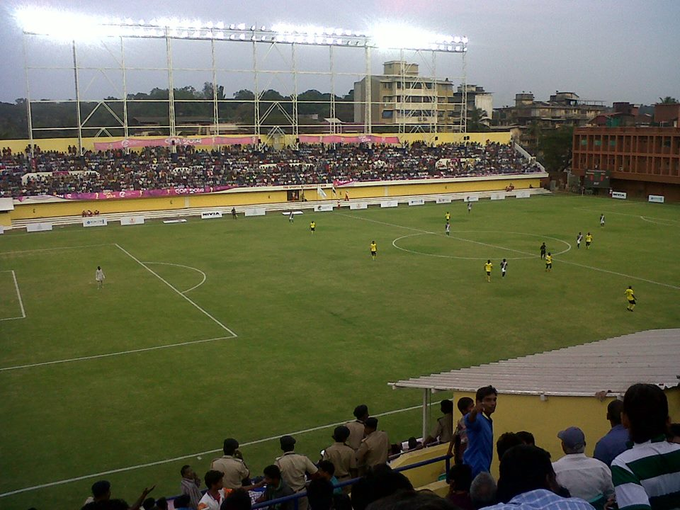 This is a picture of Tilak Maidan Stadium in Vasco da Gama, Goa, India I took this picture when the match between India and Mozambique going on in Lusofonia I have published this on facebook